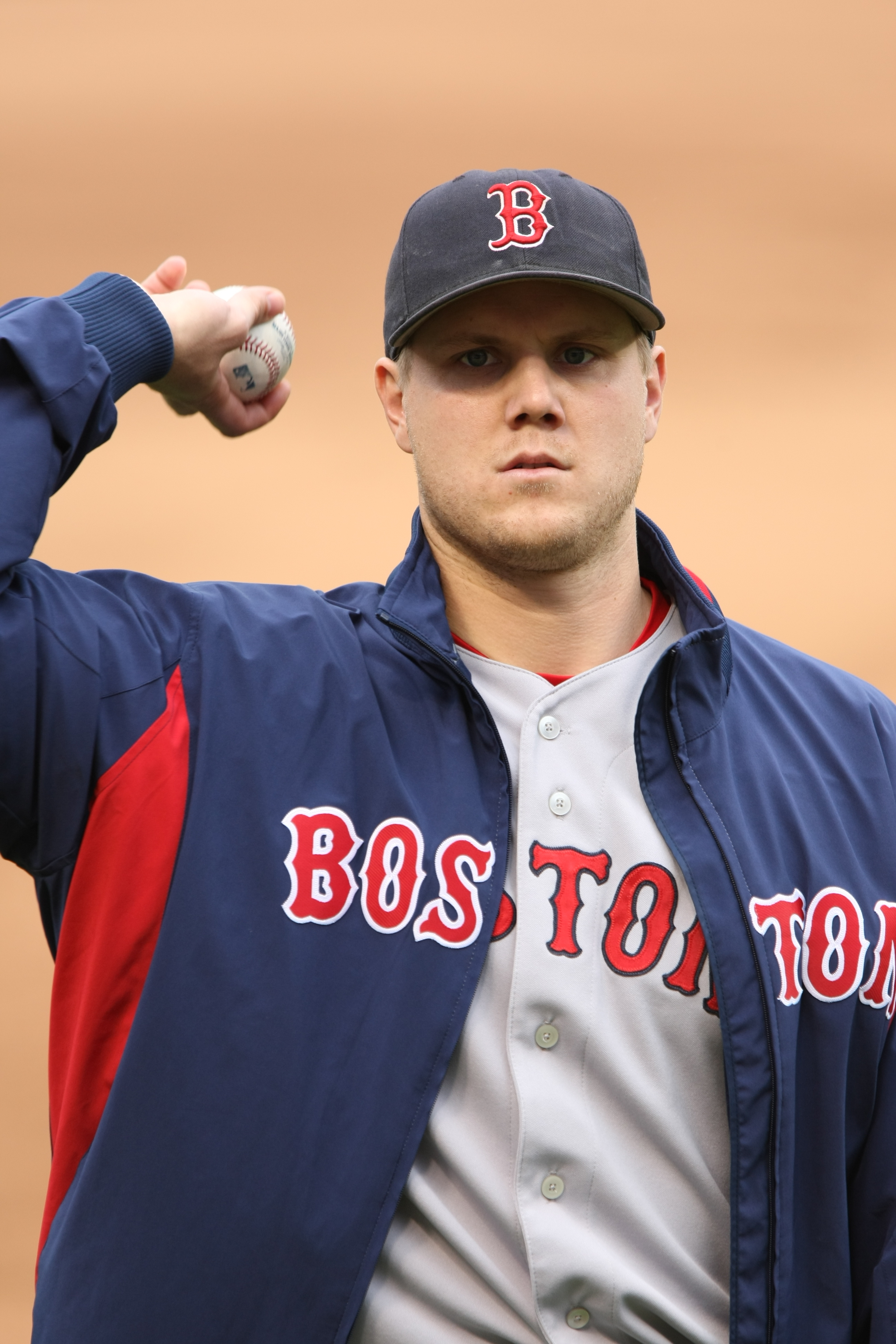 Jonathan Papelbon in pregame warmups in May 2008